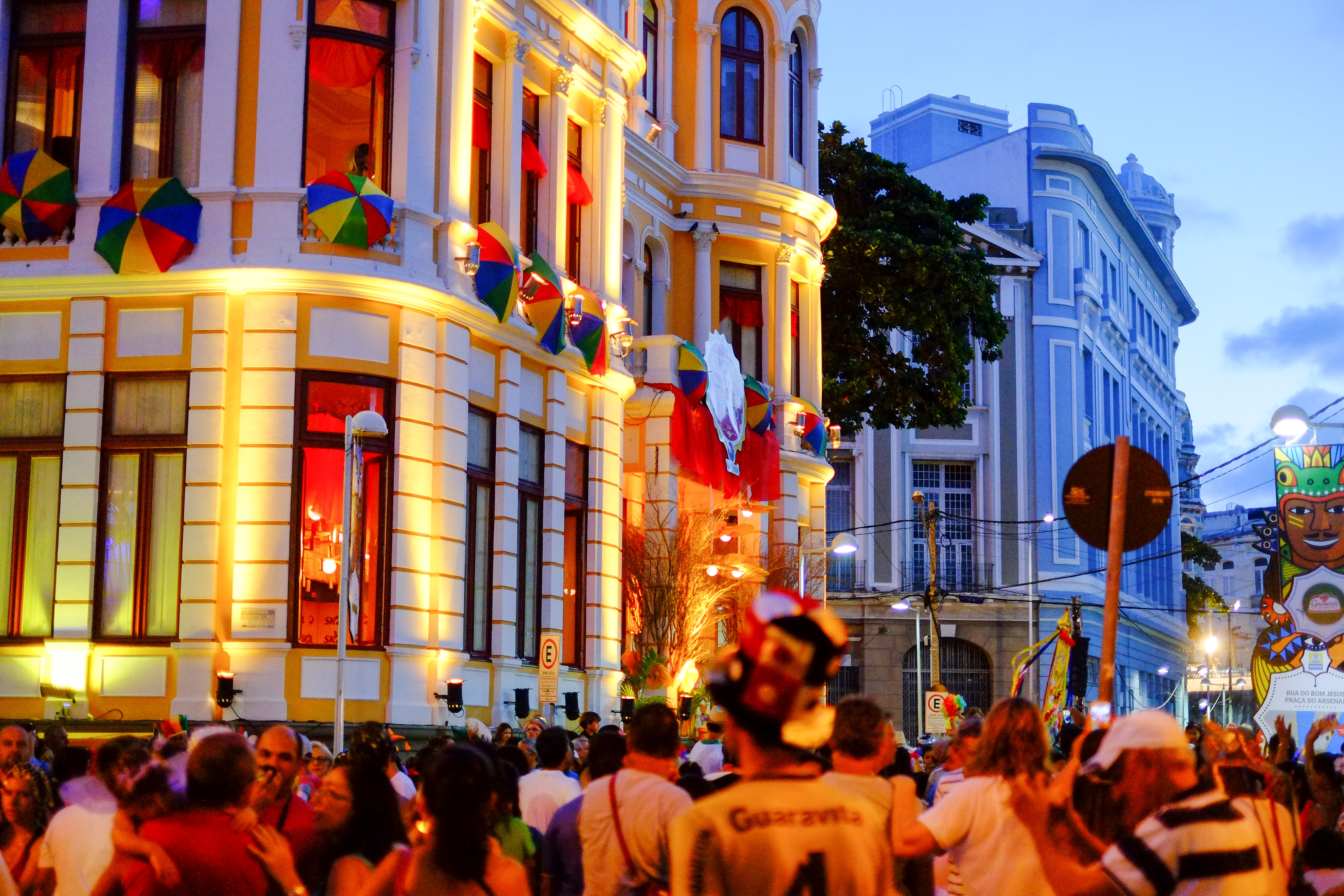 Recife Carnival - Recife, Pernambuco, Brazil